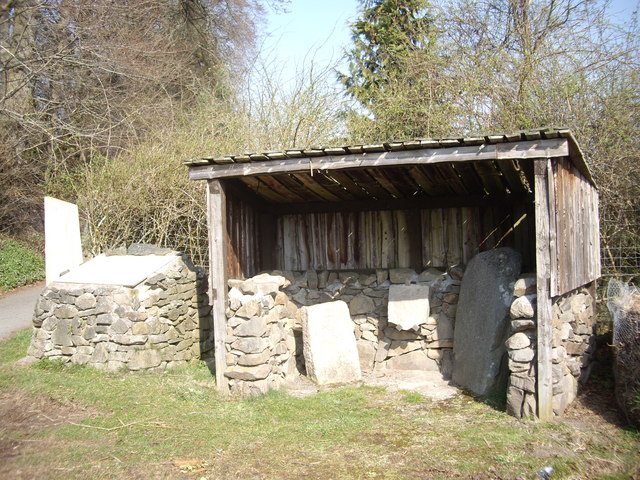 Rhynie Pictish Symbol Stones Shielded from the northerly blasts of winter.